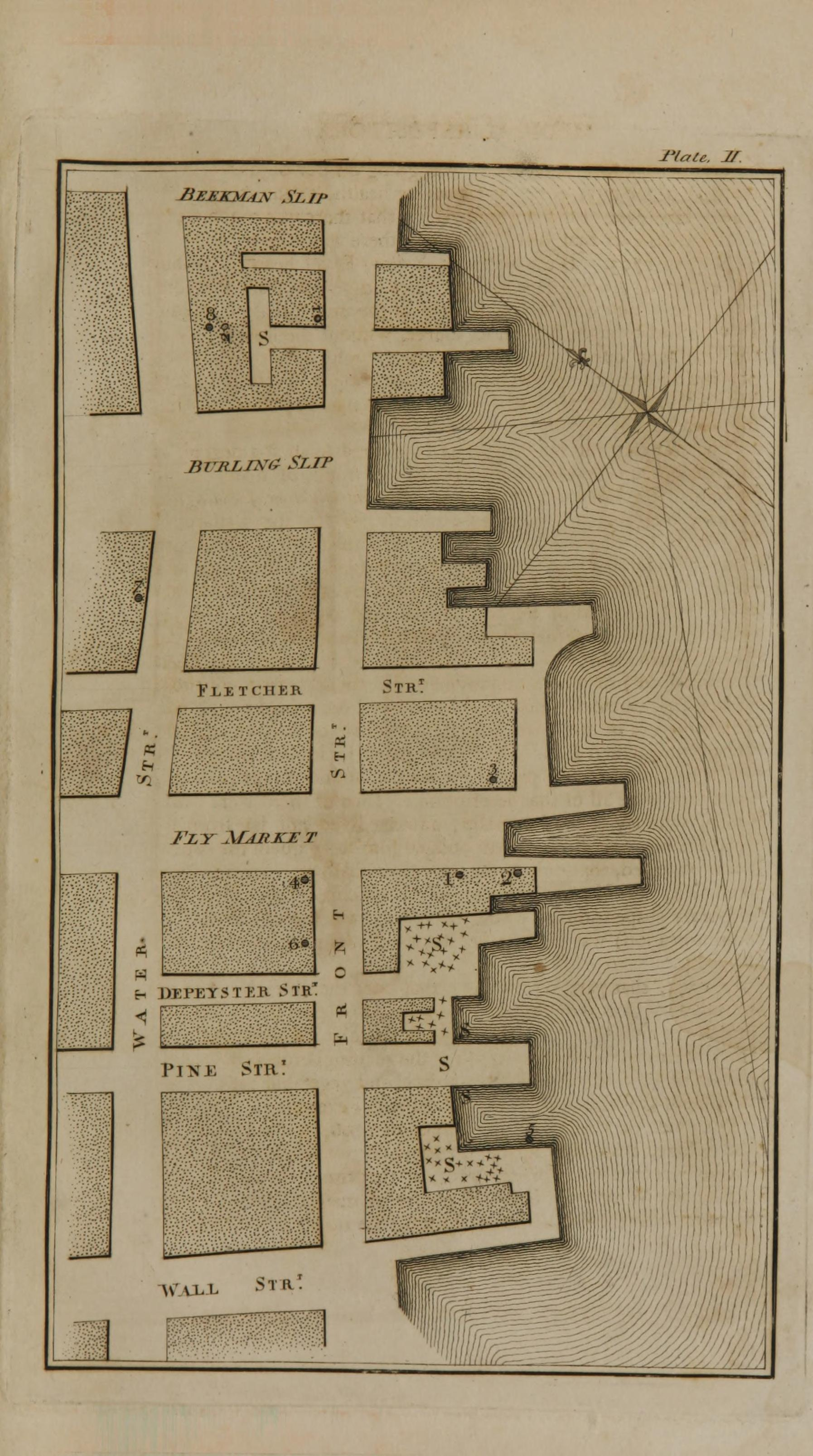 In 1795, yellow fever broke out in New York City. At the time, it was not known how yellow fever spread; some blamed incoming ships from the tropics. As the fever spread, Seaman mapped each case he could find in the New Slip area, marking which cases were fatal. He then mapped local waste sites, compared the two maps, and concluded that yellow fever originated in these waste areas. (While he did note that mosquitoes were present at the waste sites, he did not identify them correctly as the vectors for the disease.) The city's Committee of Health asked for his advice regarding the disease's cause and prevention; Seaman recommended filling in areas that were below sea-level and wherever water tended to stagnate, cleaning and paving streets, covering sewers, and filling in the areas beneath granaries and docks. A fuller account and the maps he created (including this plate) were published in 'An Inquiry into the Cause of the Prevalence of the Yellow Fever in New-York' in 1798. The book this plate comes from belongs to the U.S. National Library of Medicine and was digitized with funding from the Open Knowledge Commons. It is hosted by the Internet Archive